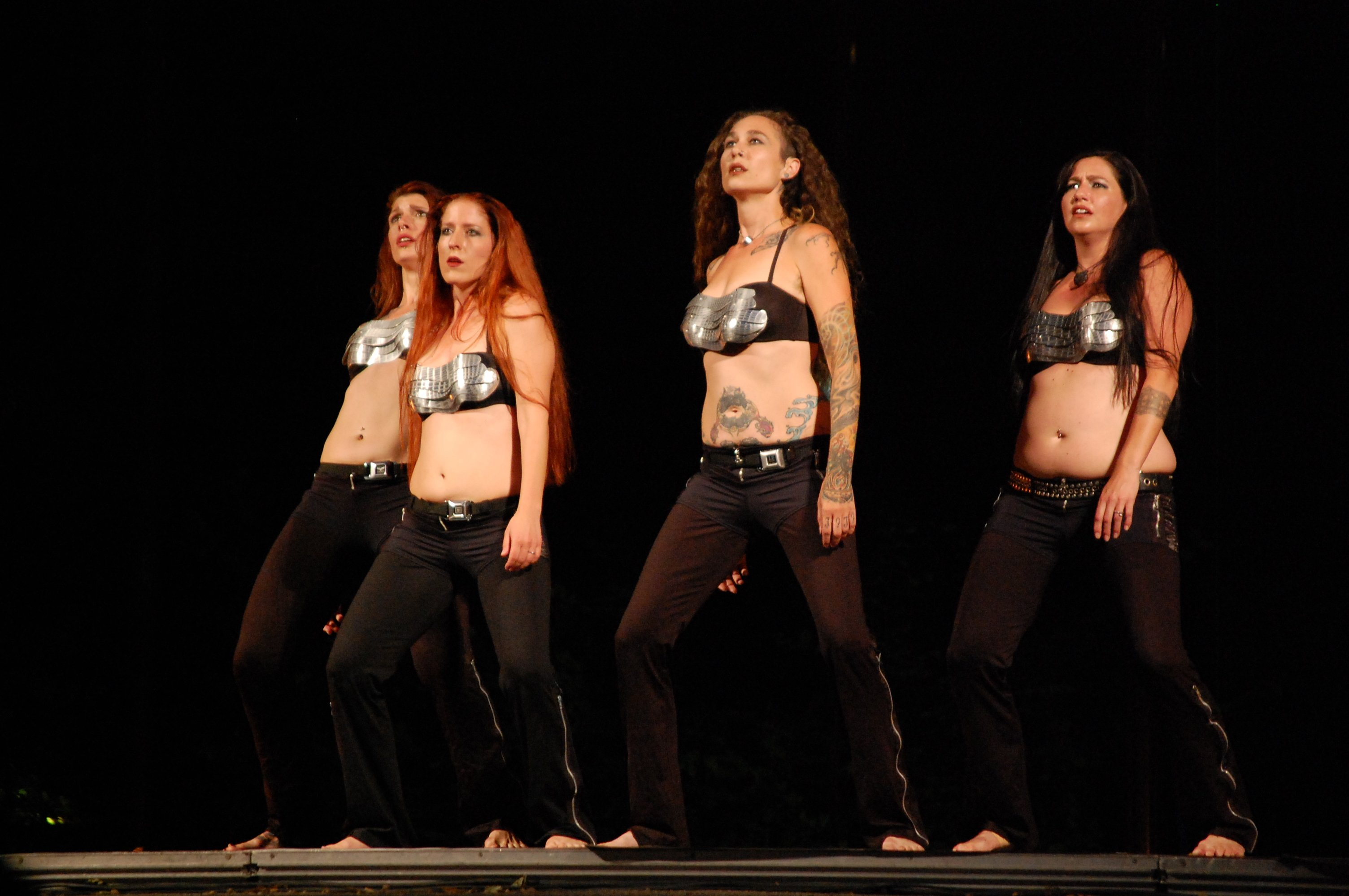 Unmata, at the Tribal Umrah festival, Rennes August 2012